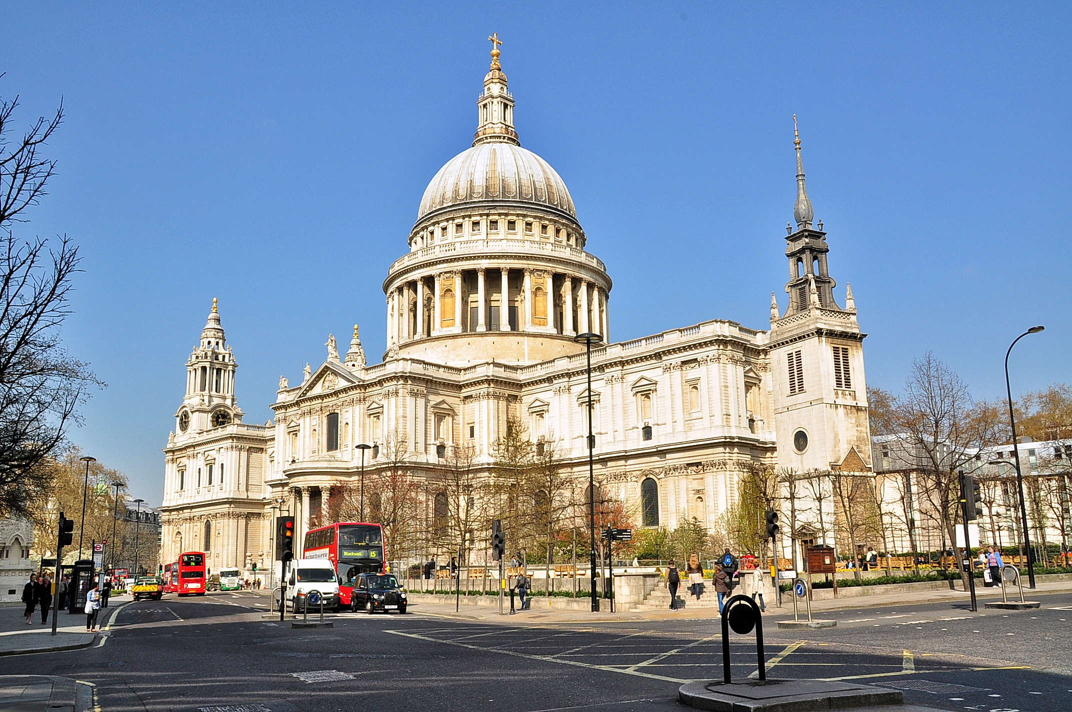 St Paul's Cathedral, London. A view very similar to this can be see in the Agatha Christie's Poirot episode "Murder on the Links" (1996).